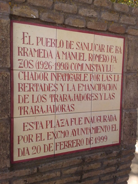 Tribute to Manuel in the Manuel Romero Pazos Square.